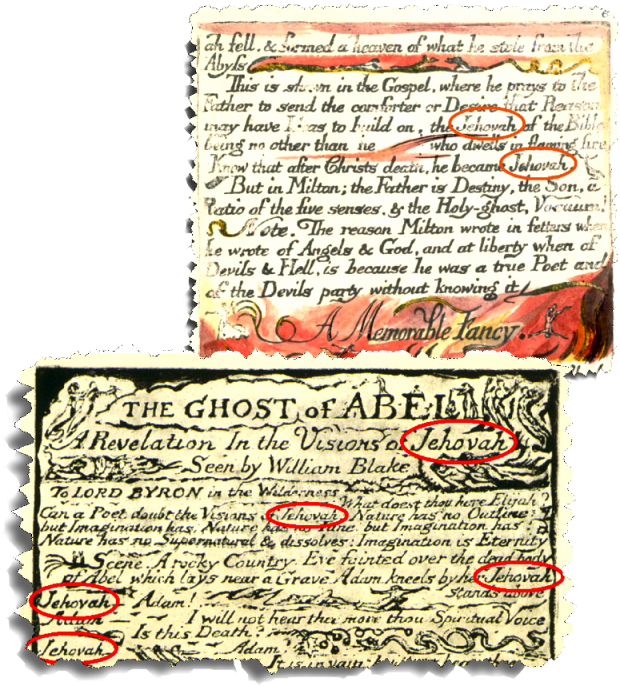 Two excerpts from William Blake's manuscript of The marriage of Heaven and Hell (1790-1793, p. 6) and The ghost of Abel: a revelation in the visions of Jehovah (1822, p. 1) containing God's name Jehovah.